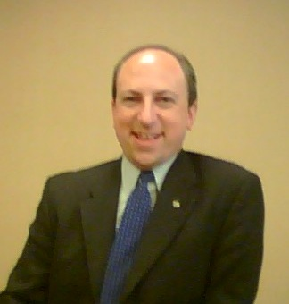 Dave Hunt is the Majority Leader of the Oregon House of Representatives.